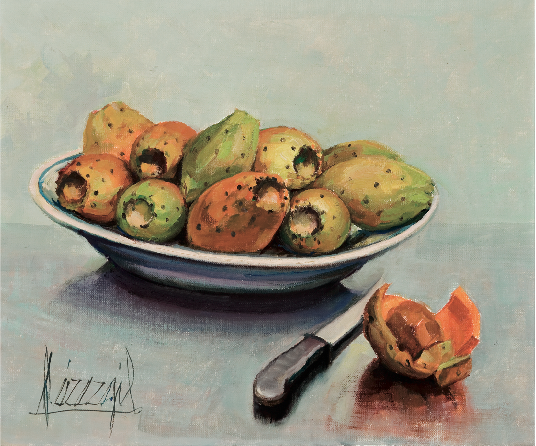 A plat of figues and blade ( 1992), a painting by José Pérez Gil (1918-2008). Oil on canvas. Collection of Enrique Fenoll.